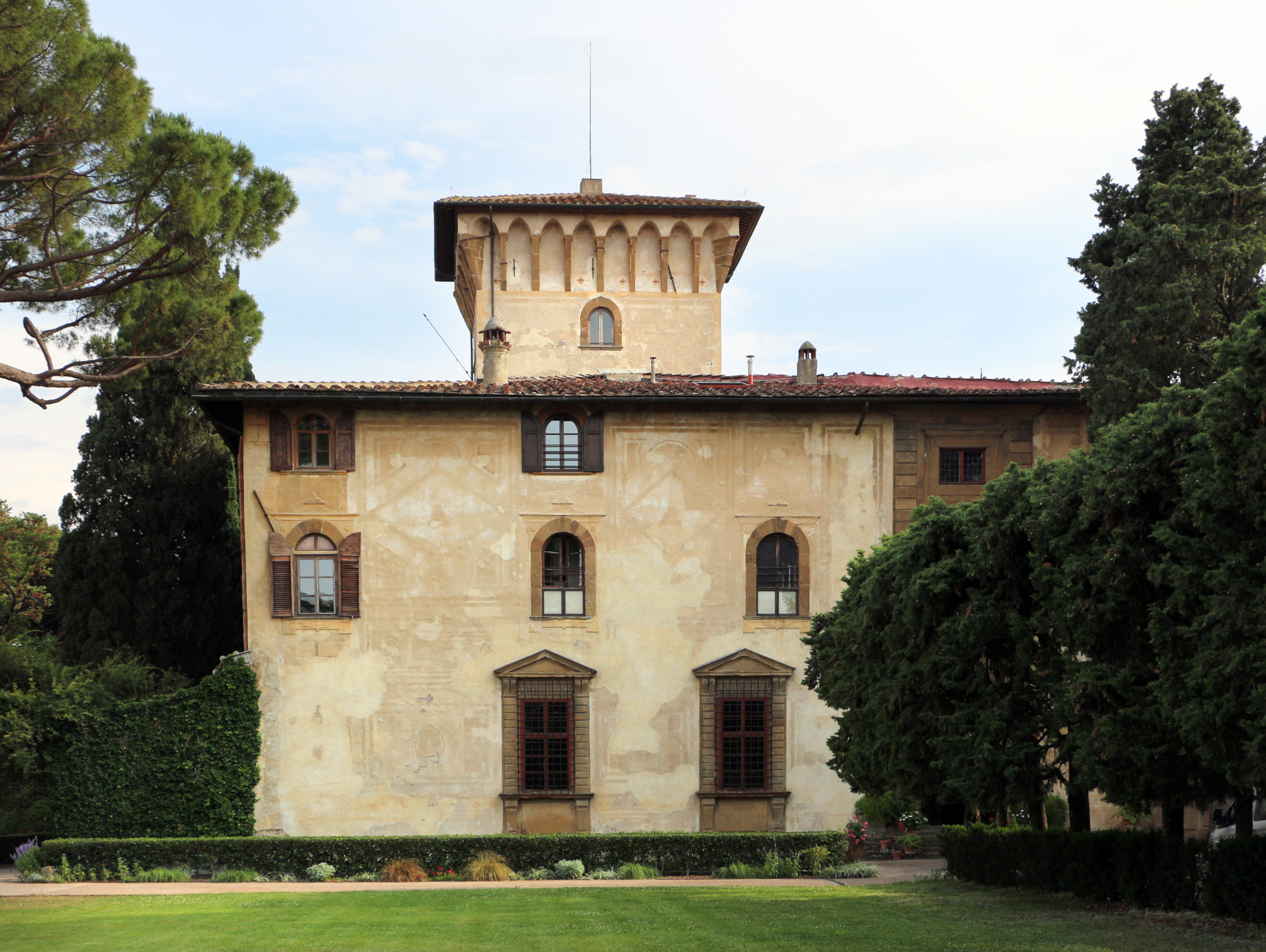 Villa di Bellosguardo